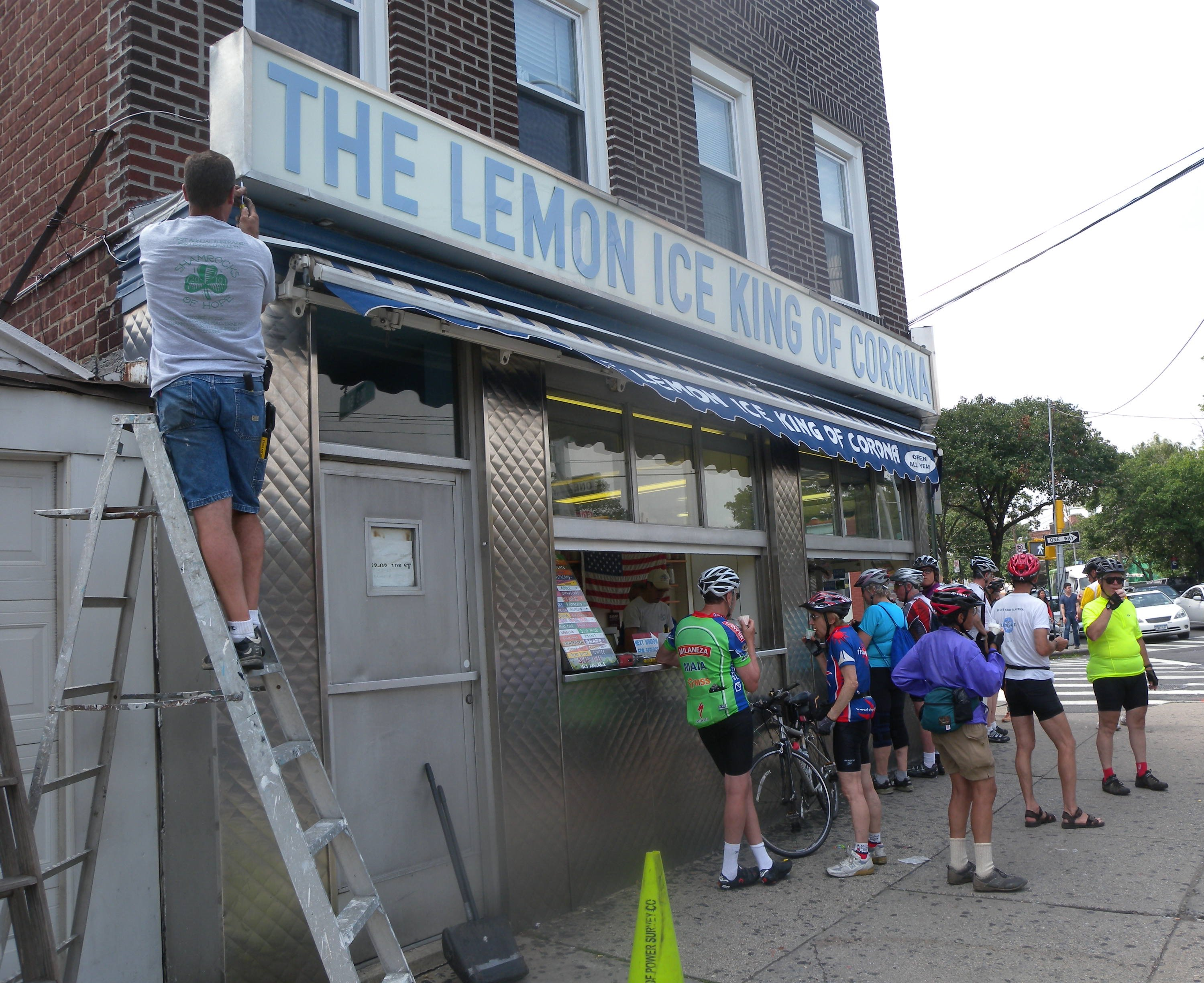 Looking west at Lemon Ice King on a mostly sunny midday.